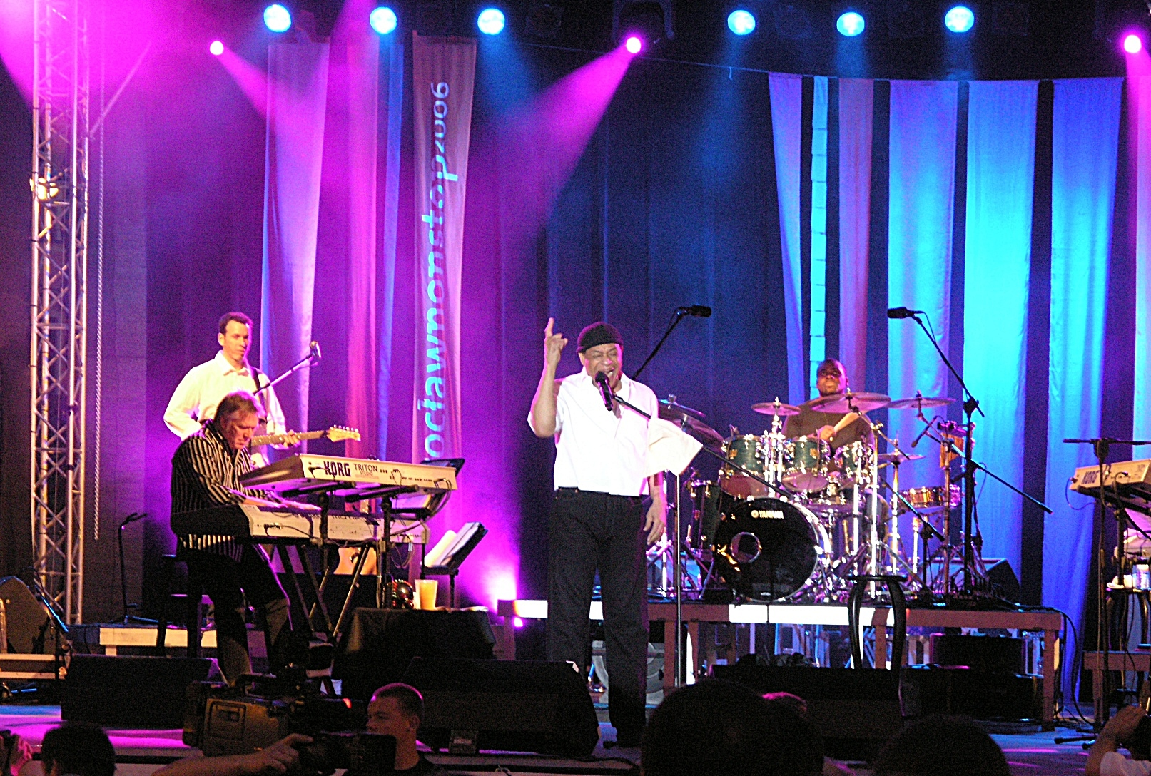 Al Jarreau and the band, Poland, Wrocław, June 25, 2006